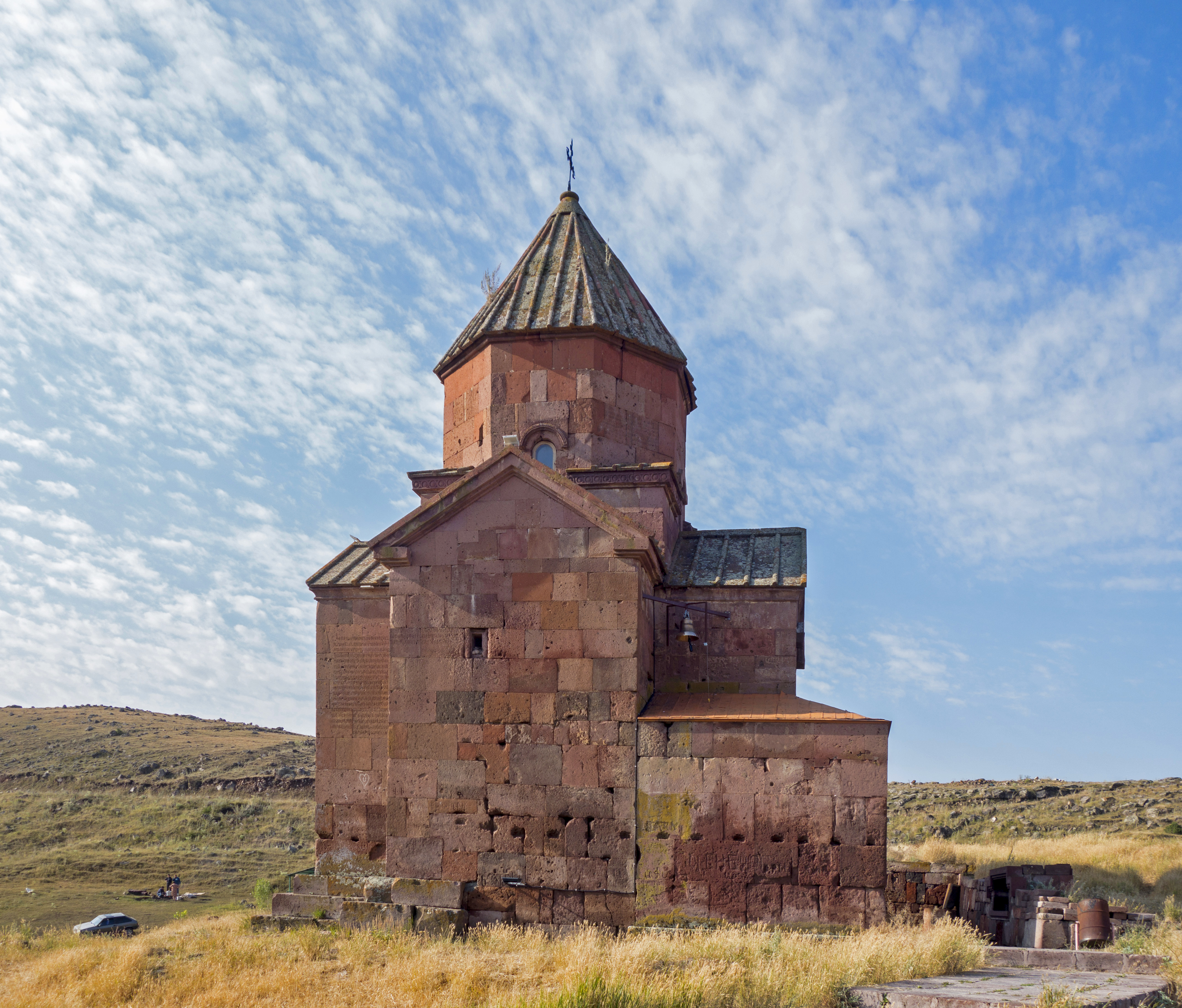 Lmbat Monastery in Shirak province, Armenia.